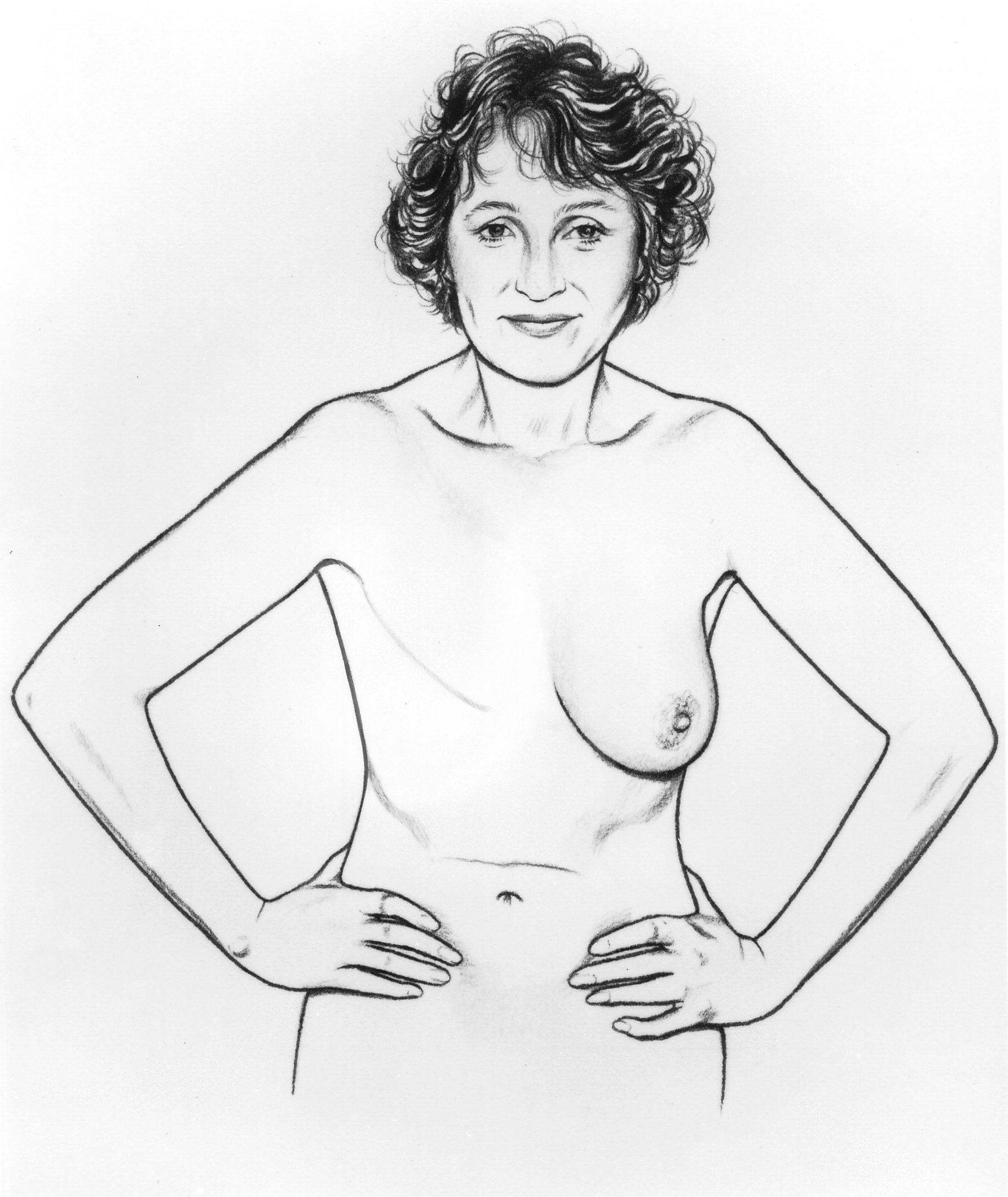 Title BSE After Mastectomy (Series of 6) Illustration Description A woman after a mastectomy performing the steps in a breast self-examination (BSE). Topics/Categories Anatomy -- Breast Test or Procedure -- Physical Exam Type B&W, Medical Illustration Source National Cancer Institute